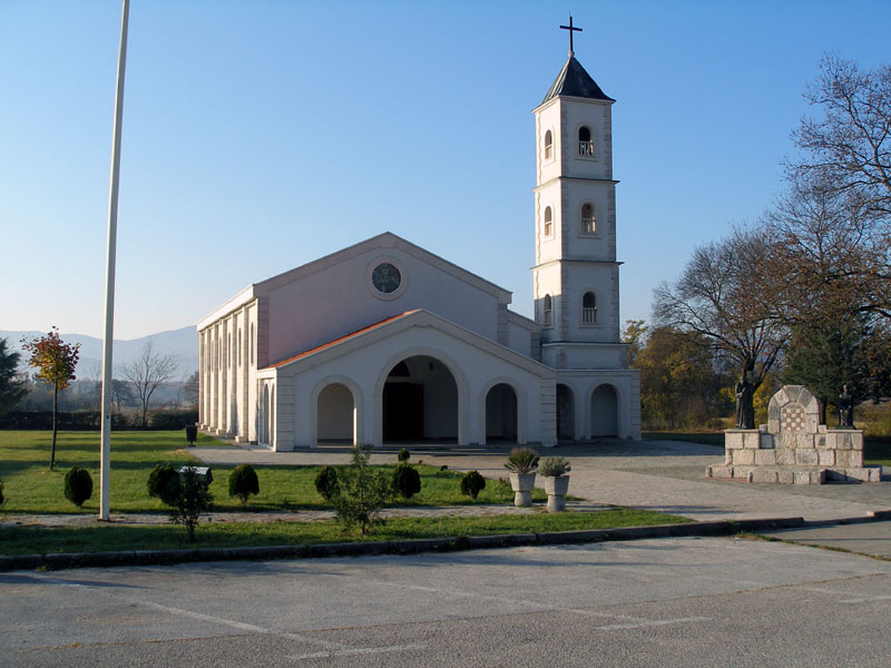 Roman Catholic church of St. Peter and Paul in village Sovići, municipality of Grude